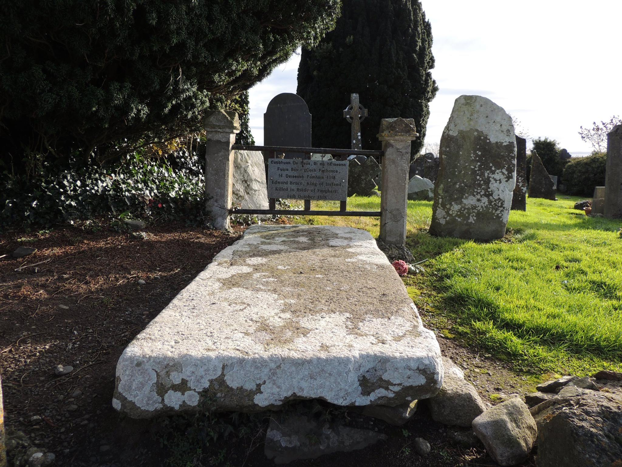 Located in Faughart Cemetery